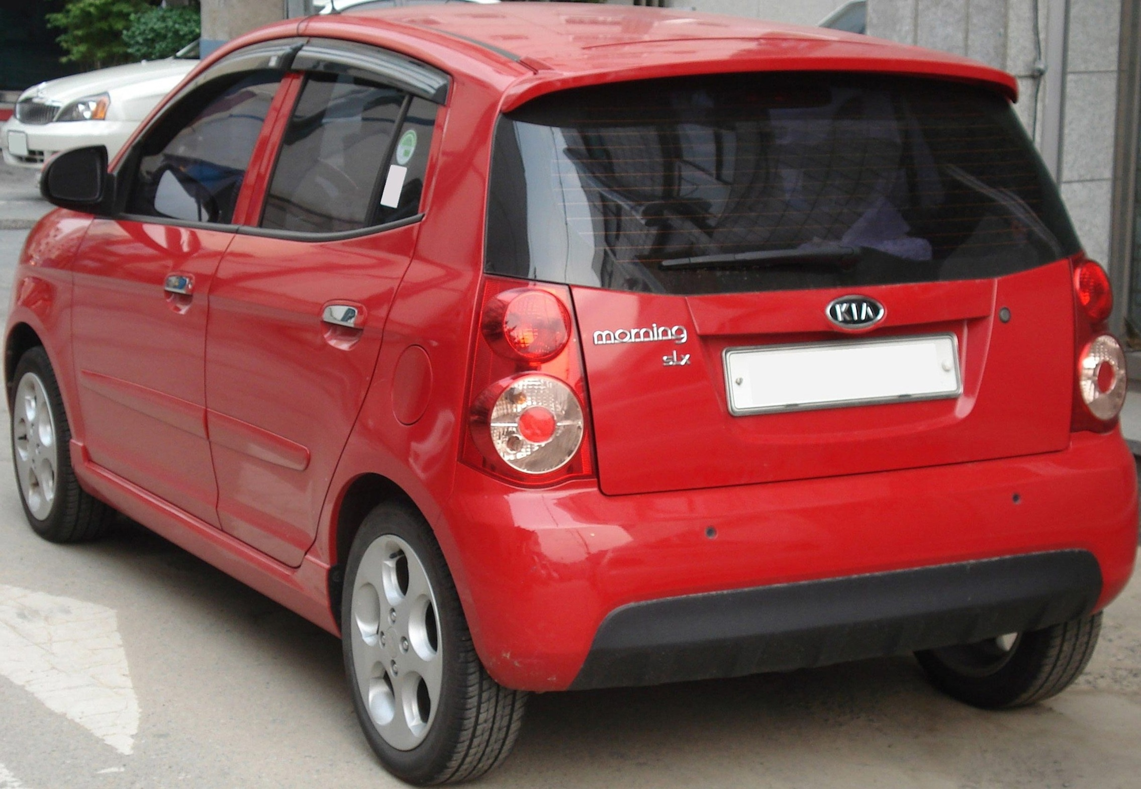 Kia New Morning